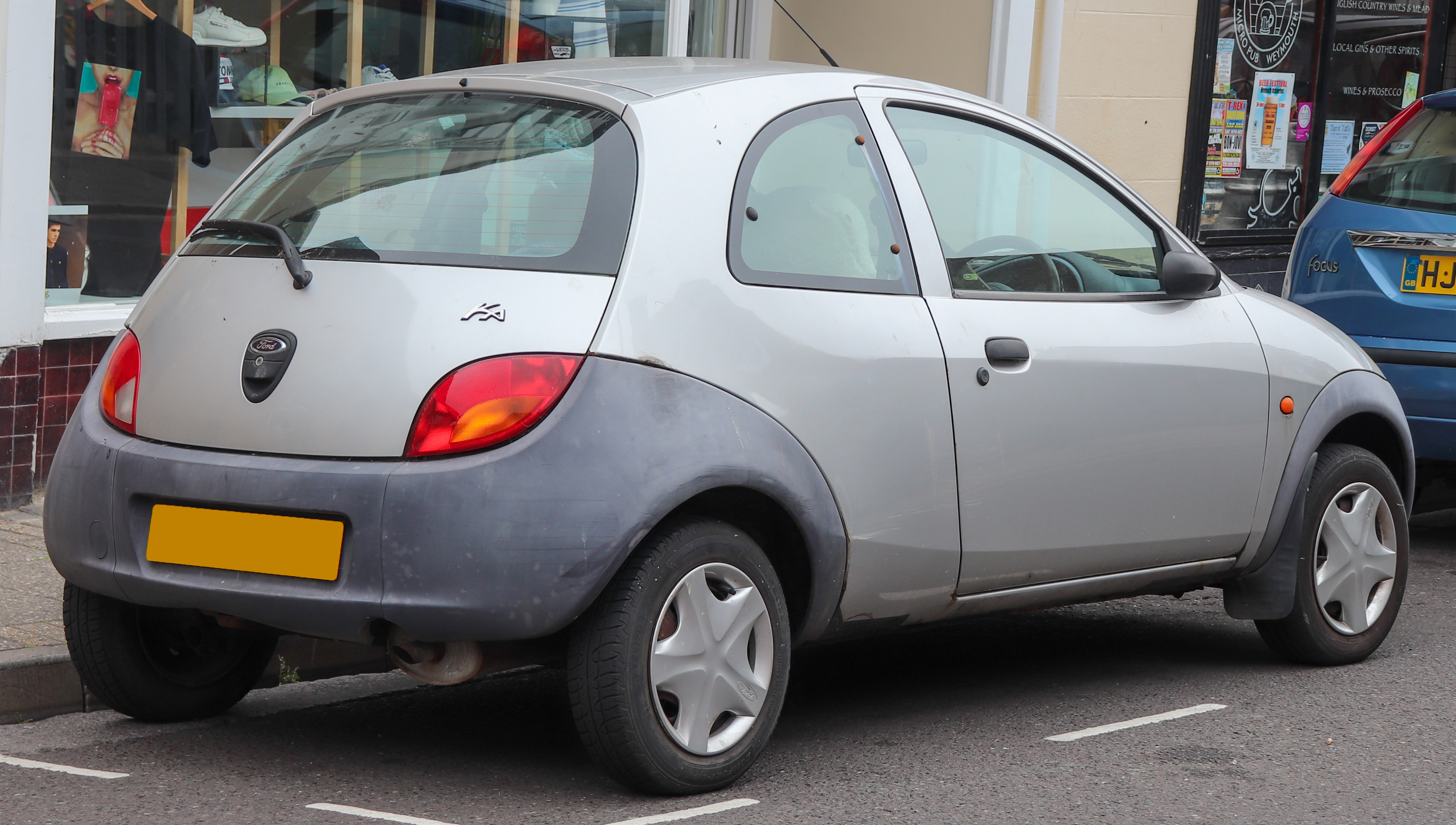 1997 Ford Ka 1.3 Rear Taken in Weymouth